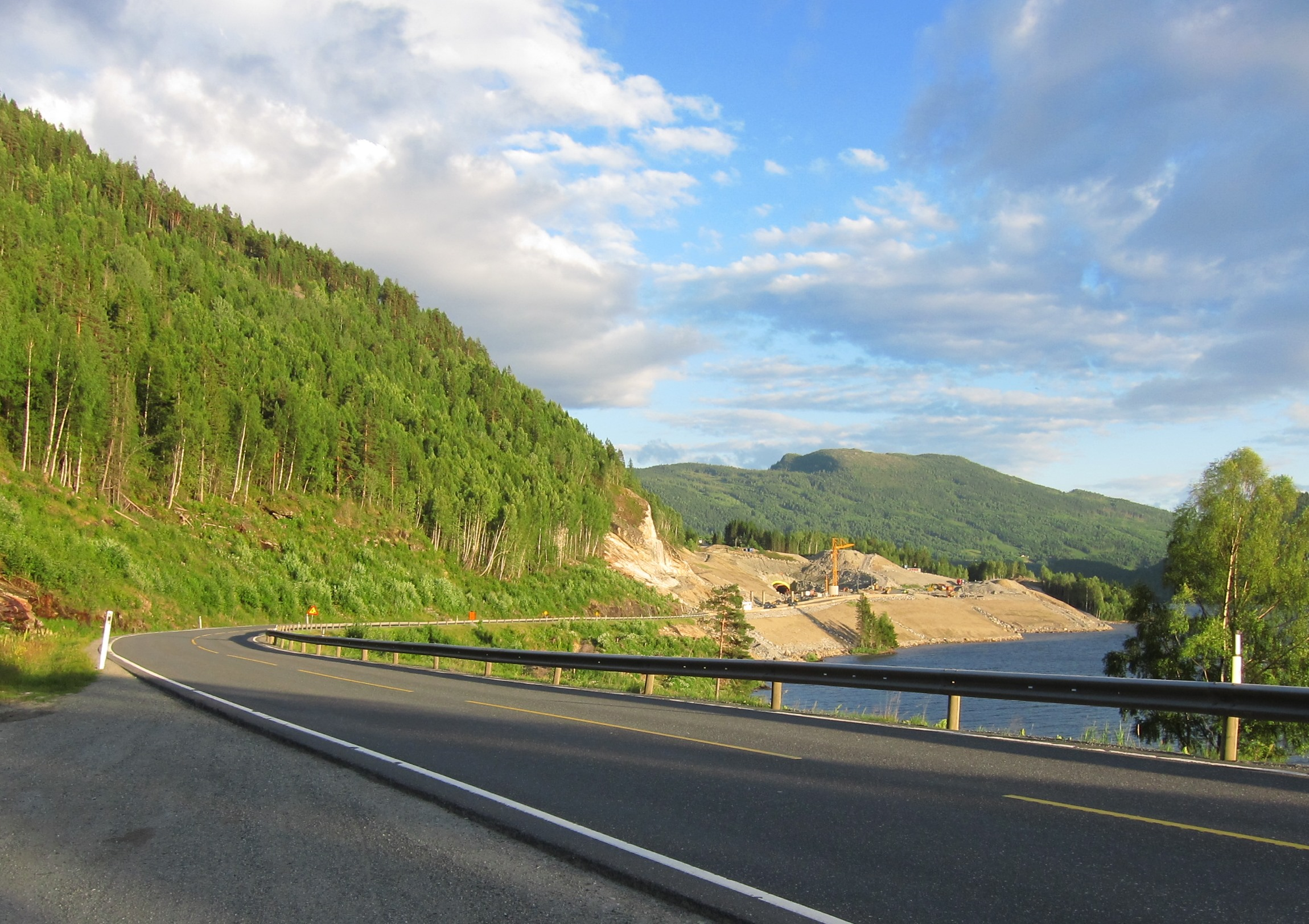 New road 7 under construction at Ørgenvika, Buskerud, Norway